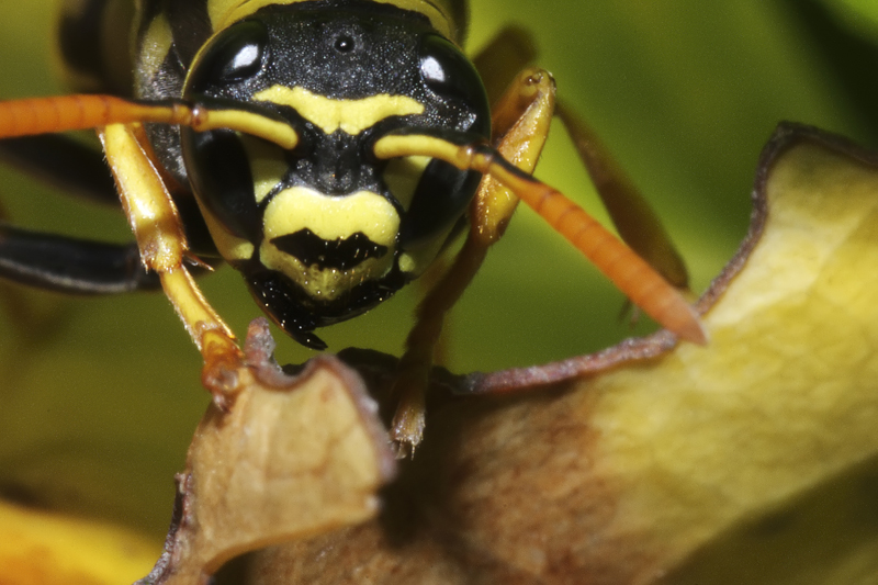 Wasp head